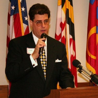 Photo of Christopher J. Shea taken publicly at the Montgomery County Government Executive Office Building (EOB), Rockville, MD 20850